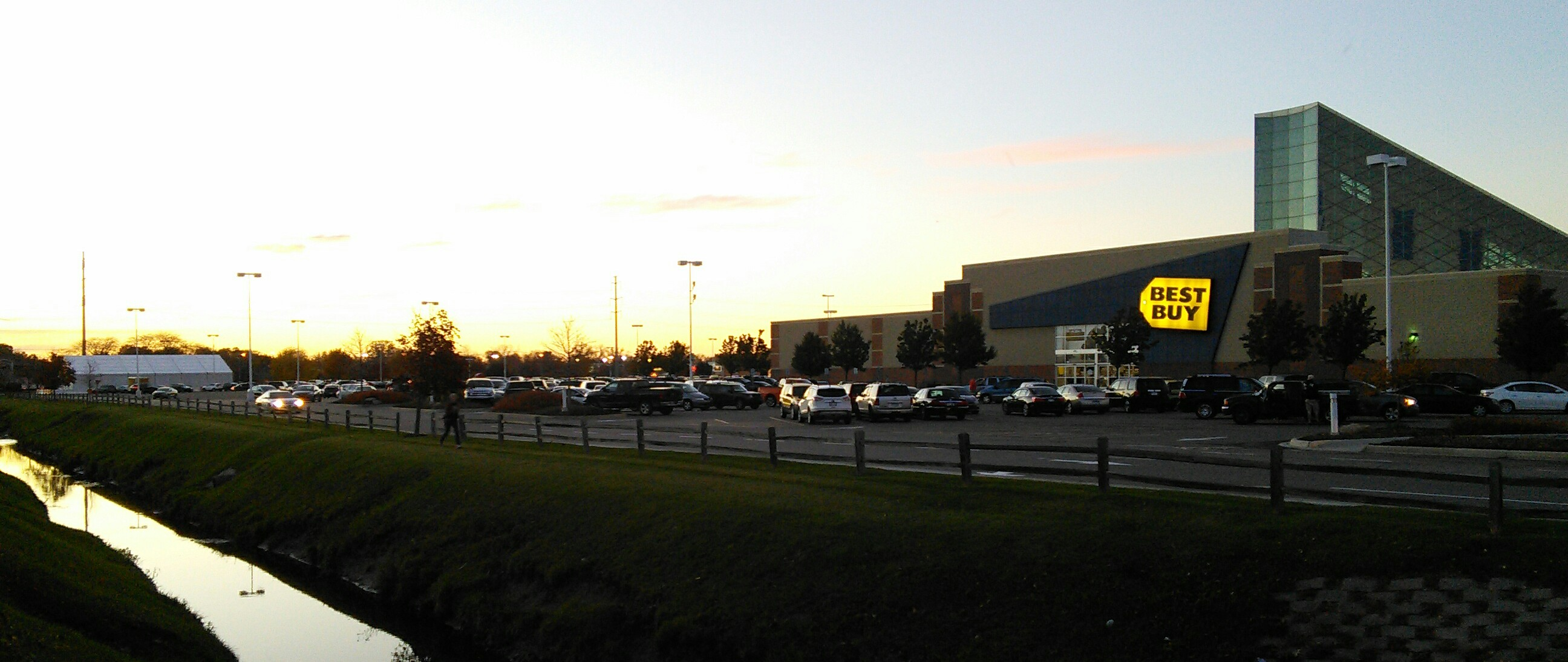 Southland Center at sunset, November 2014